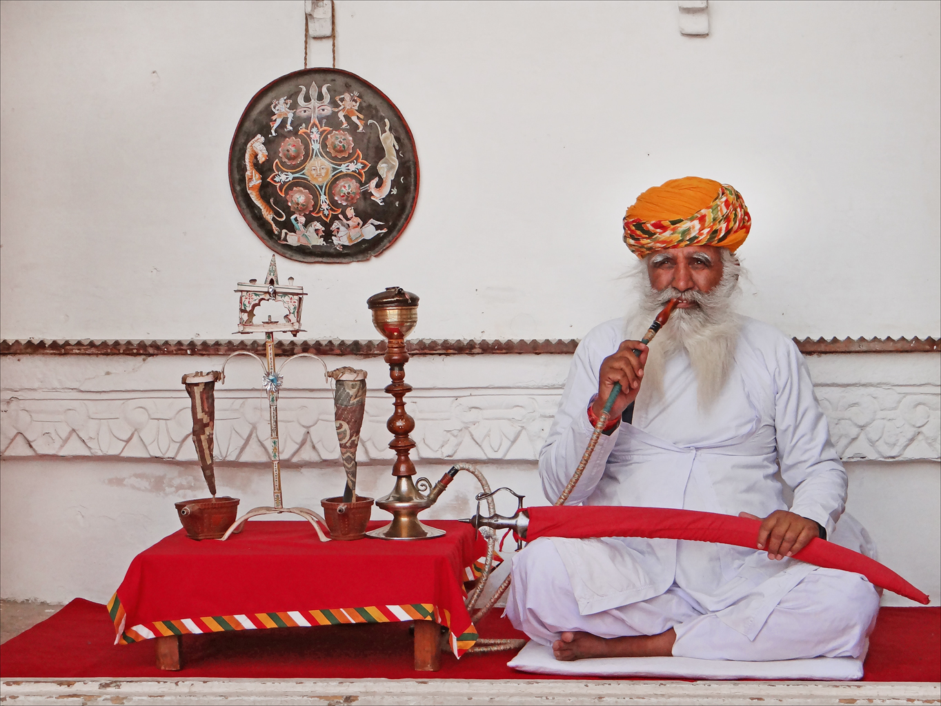 This old man Rajput poses for visitors with a sword on his knees in the palace of Maharaja (Mehrangarh Fort)